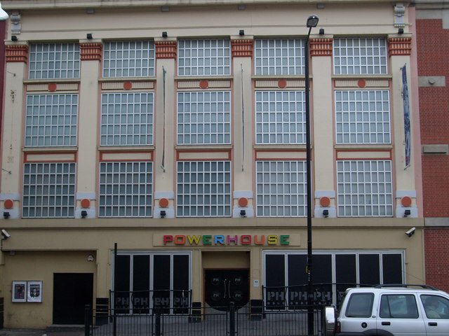 The Powerhouse Powerhouse gay club on Westmorland Road.